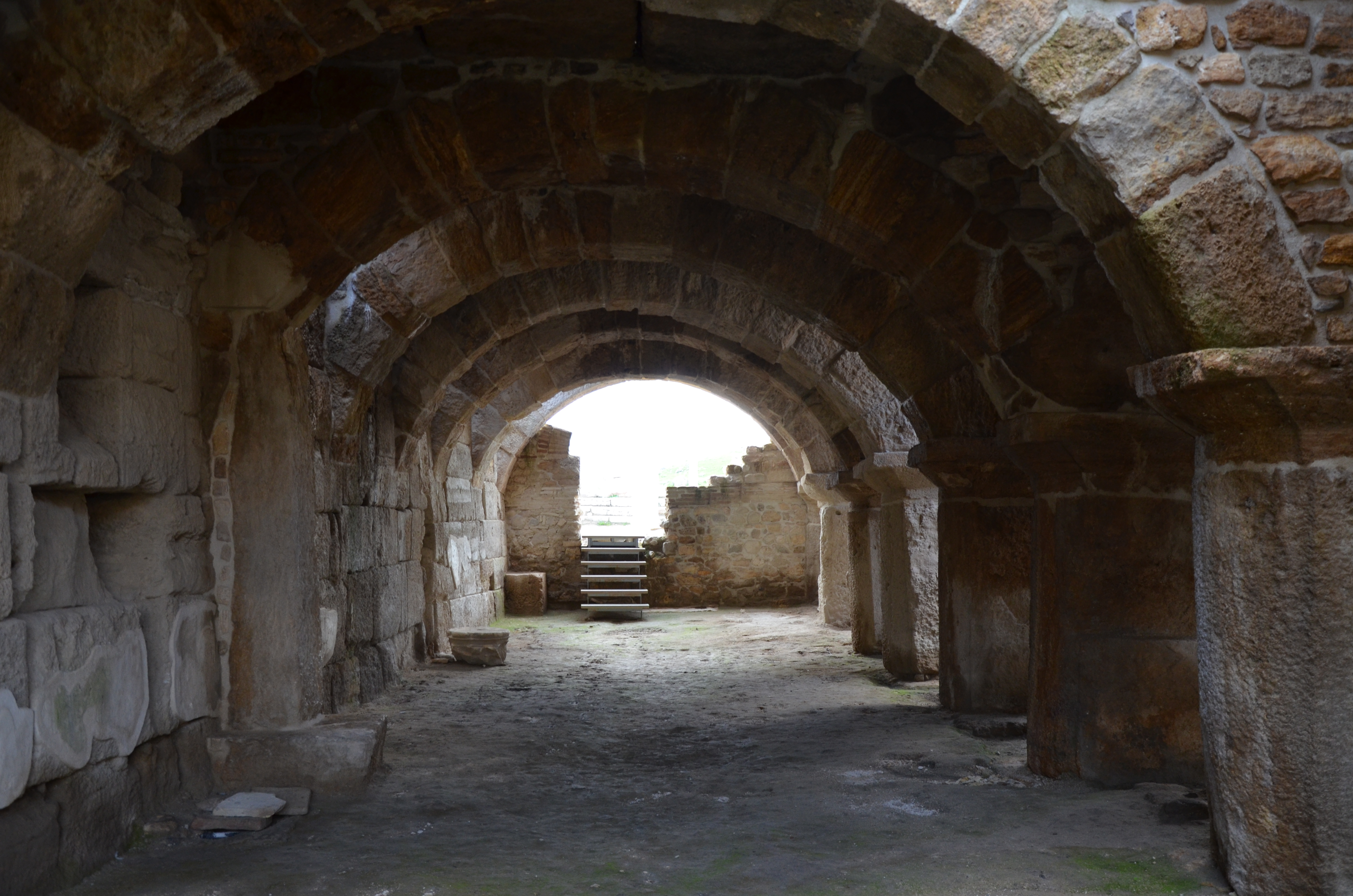 Tripolis on the Meander, Lydia, Turkey